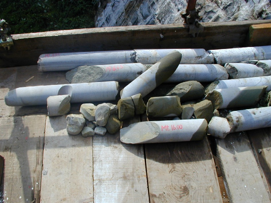 rock core samples, obtained from a gravity dam